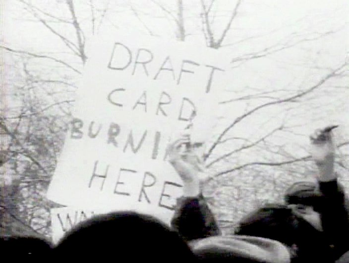 This is a screen capture taken from the public domain newsreel footage of Universal News, given into public domain by MCA in 1976 and hosted by Internet Archive at The footage shows an anti-war protest in New York City in 1967, including a group of young men burning their draft cards. The protest was held in Sheep Meadow in Central Park; author Jerry Elmer calls it "the first large-scale burning of individual draft cards by resisters".